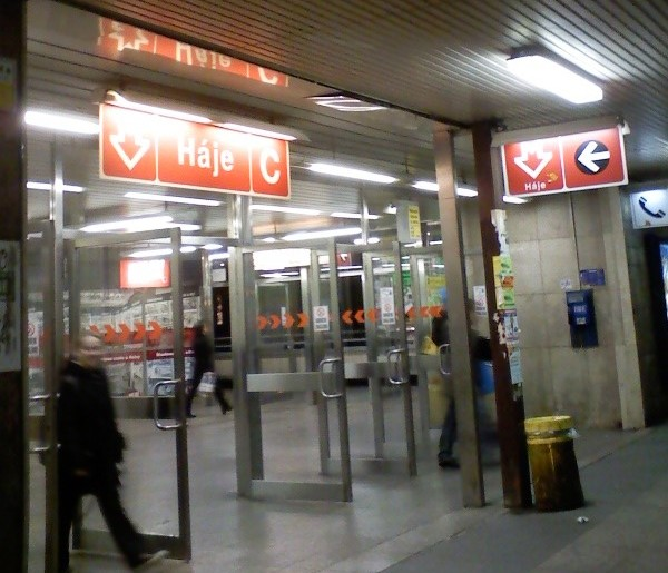 Entrance to Háje Metro Station in Prague, The Czech Republic